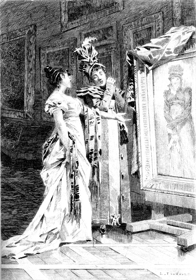 Title page of Honoré de Balzac's The Dance at Sceaux (1830).